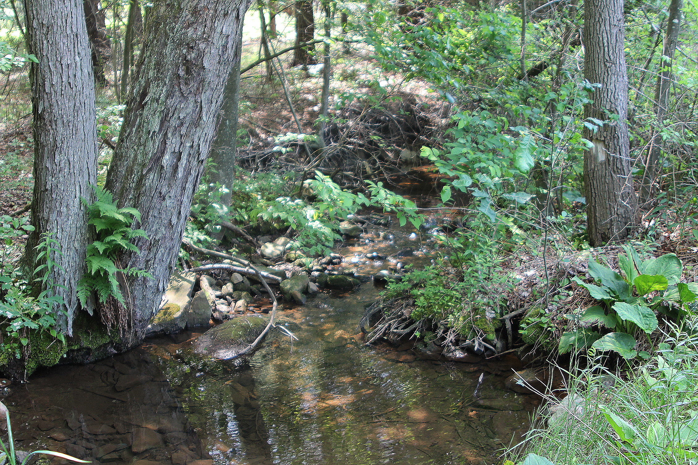 Little Shickshinny Creek less than half a mile downstream of its headwaters, looking downstream